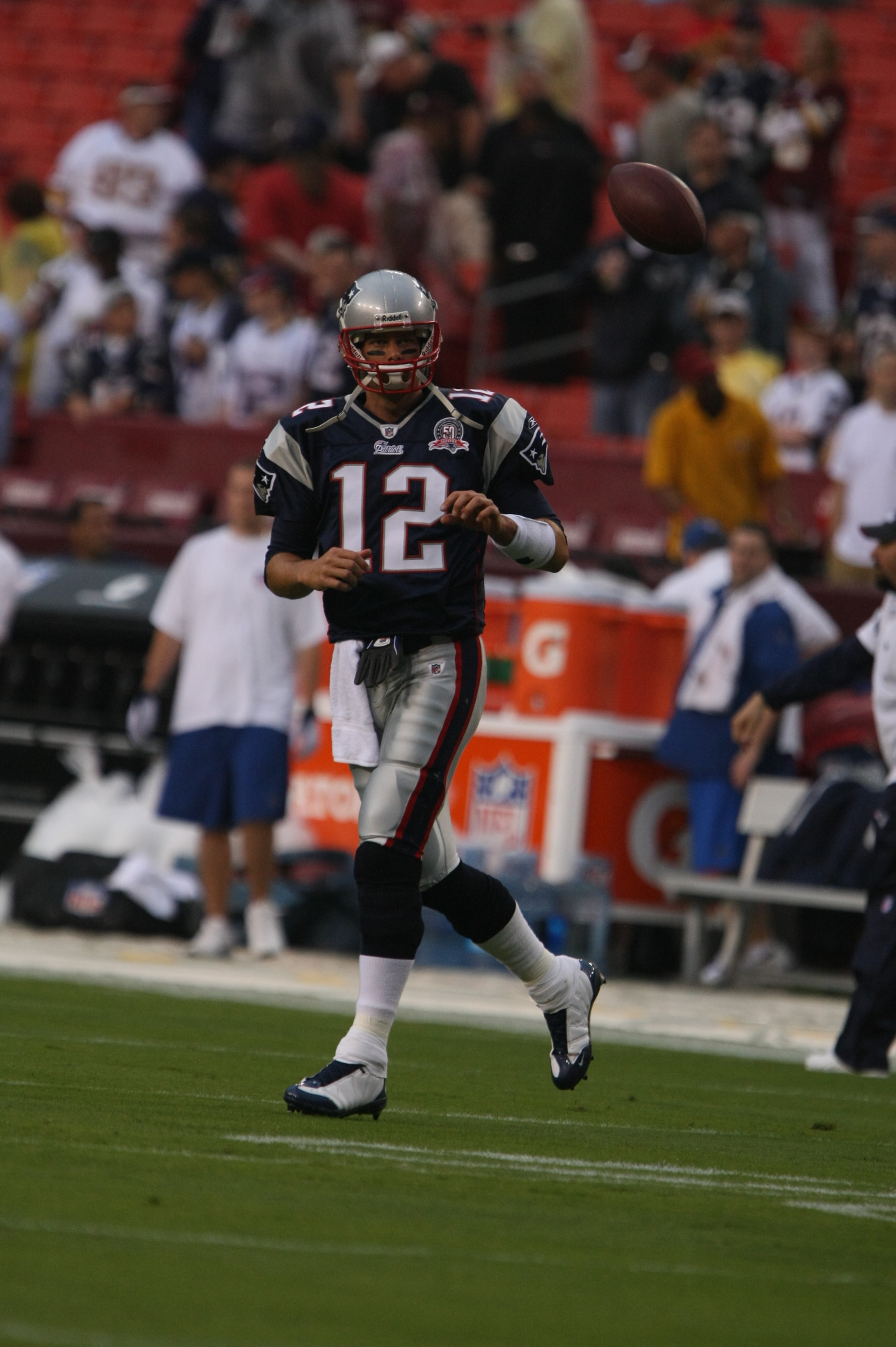 Tom Brady #12 of the New England Patriots during warmups in a preseason game against the Washington Redskins at FedExField on August 28, 2009 in Landover, Maryland.